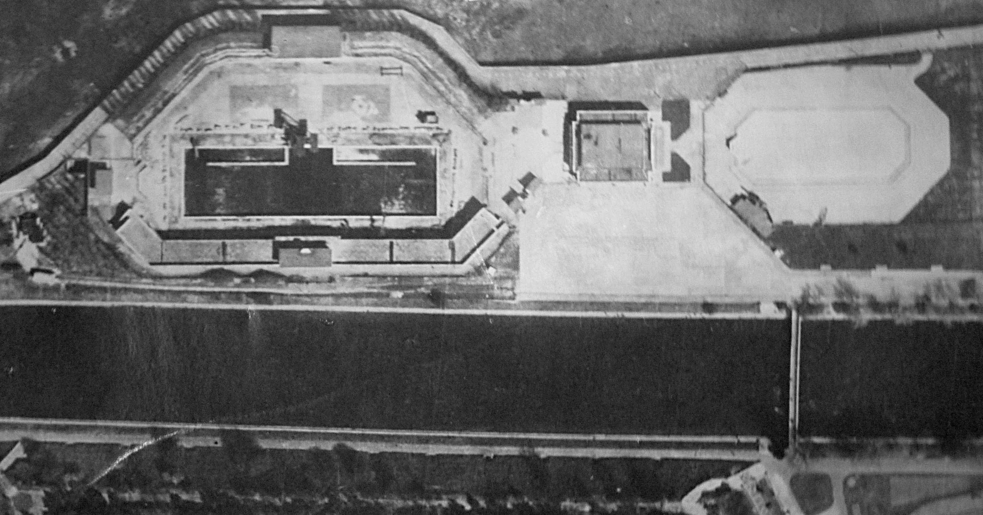 Photo of hilsea lido from the air taken in 1947